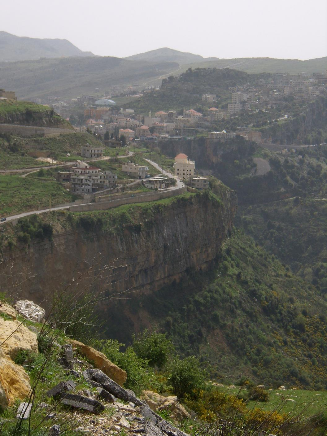 View of Jezzine in southern Lebanon